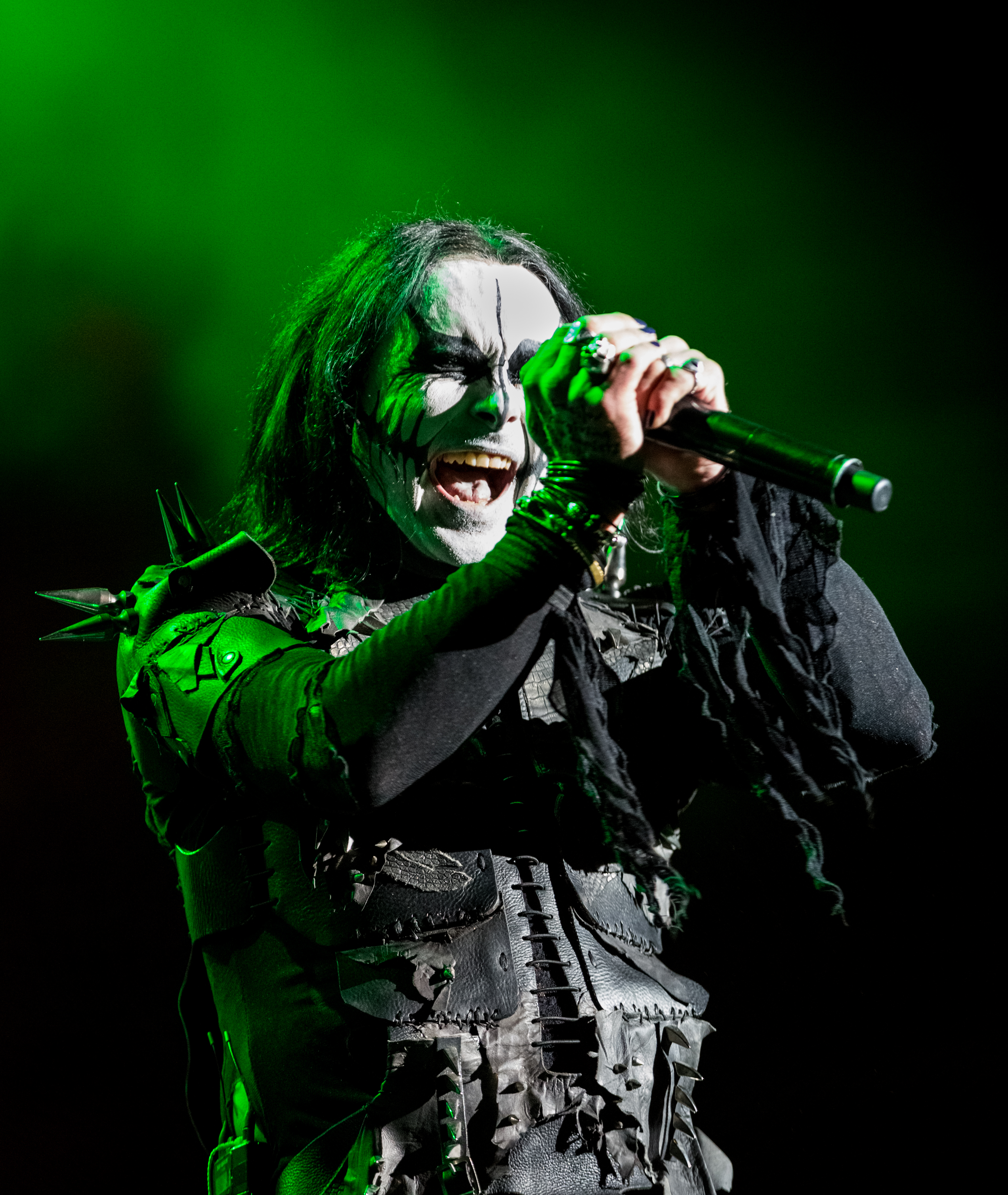 Cradle of Filth - Wacken Open Air 2015